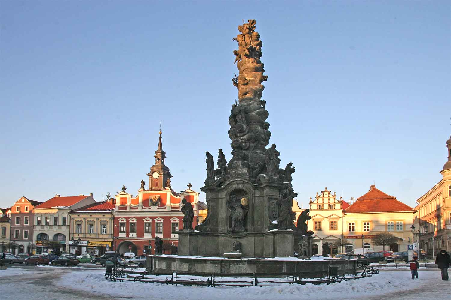 plague Column of Transfiguration of Jesus in Chrudim, the Czech Republic